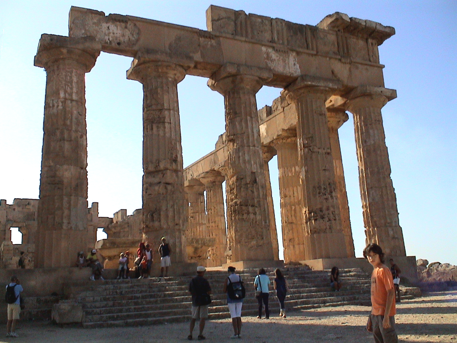 Temple of Hera (Temple E), view from east, in Selinunte, Sicily